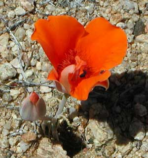 Calochortus kennedyi in Joshua Tree National Park, California, USA. NPS photo, no copyright